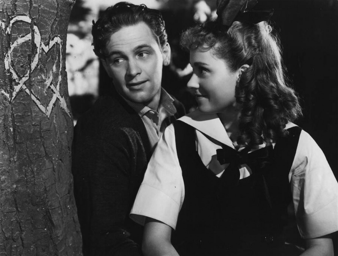 William Holden & Martha Scott in Our Town - cropped screenshot